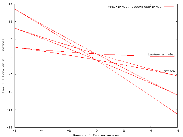 Traces of the first three oscillations of the pendulum of Foucault released in the east of the center and a distance of 6 meters with a null speed.